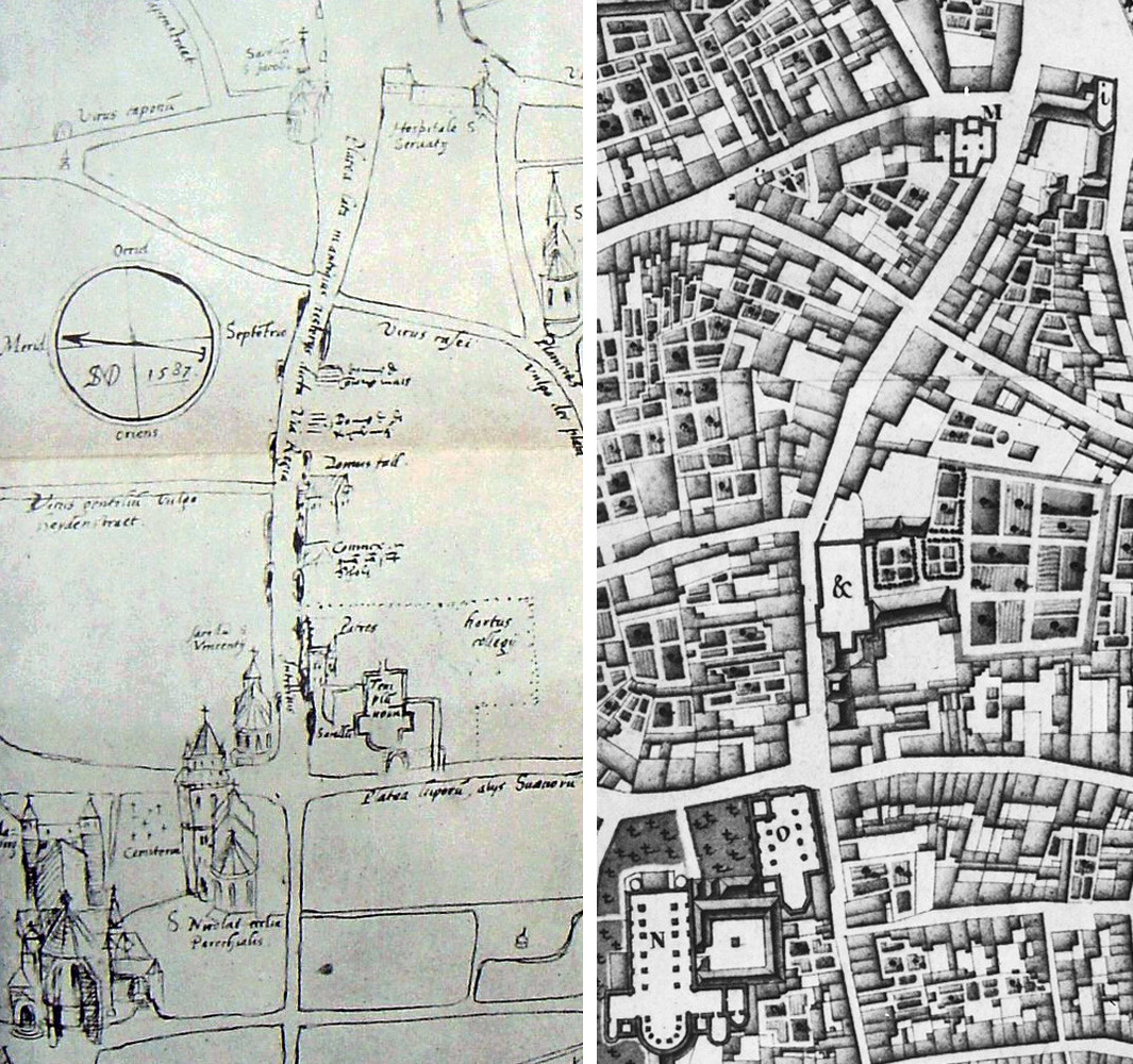 Two maps of Bredestraat and surrounding streets in Maastricht, the Netherlands. Left: part of map by (probably) Simon de Bellomonte (1587). Right: part of map by Larcher d'Aubencourt (1749).